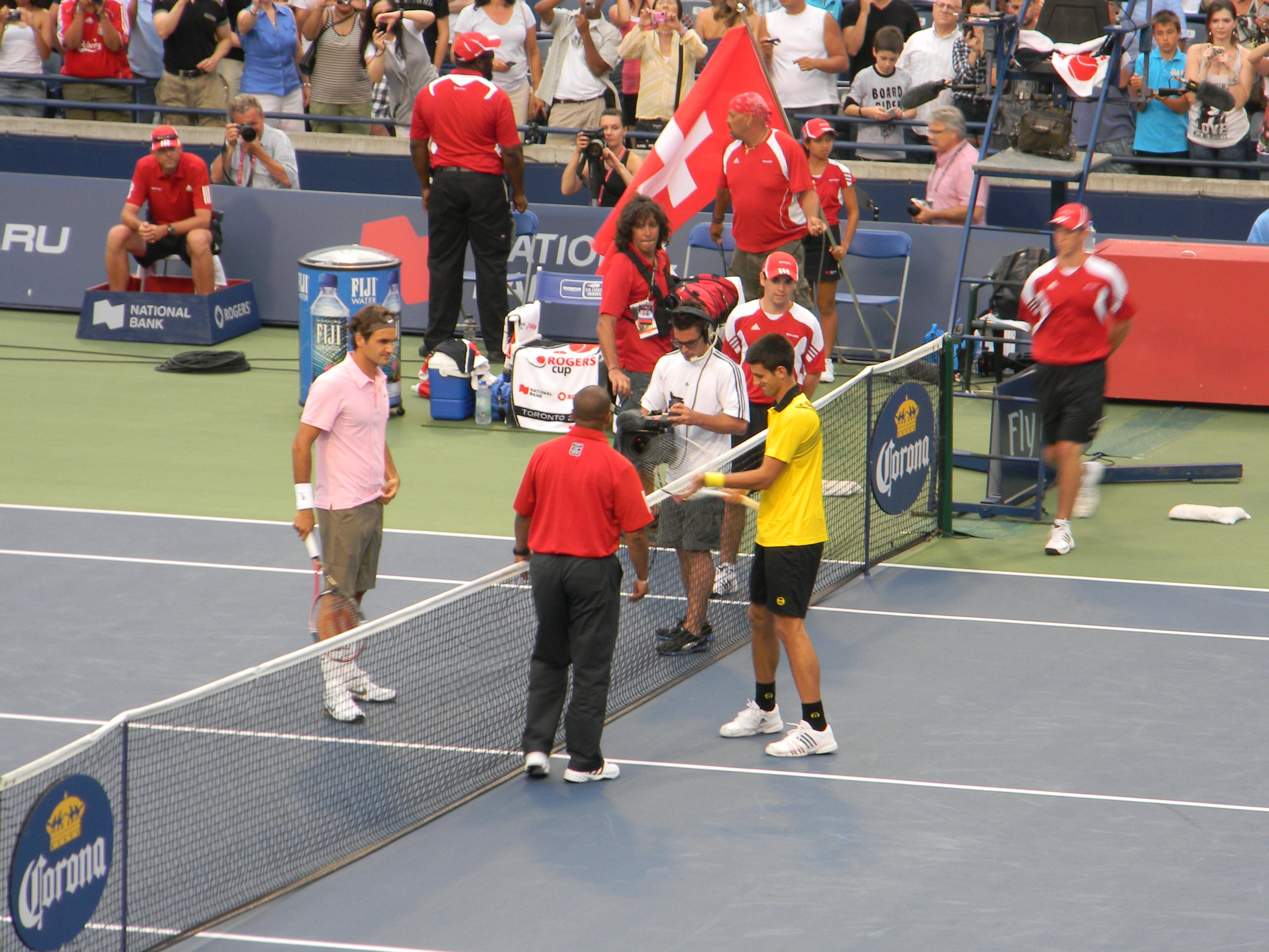 2010 Rogers Cup in Toronto, at Rexal Centre, Semifinal game Djokovic-Federer 1:2 (1:6, 6:3, 5:7)